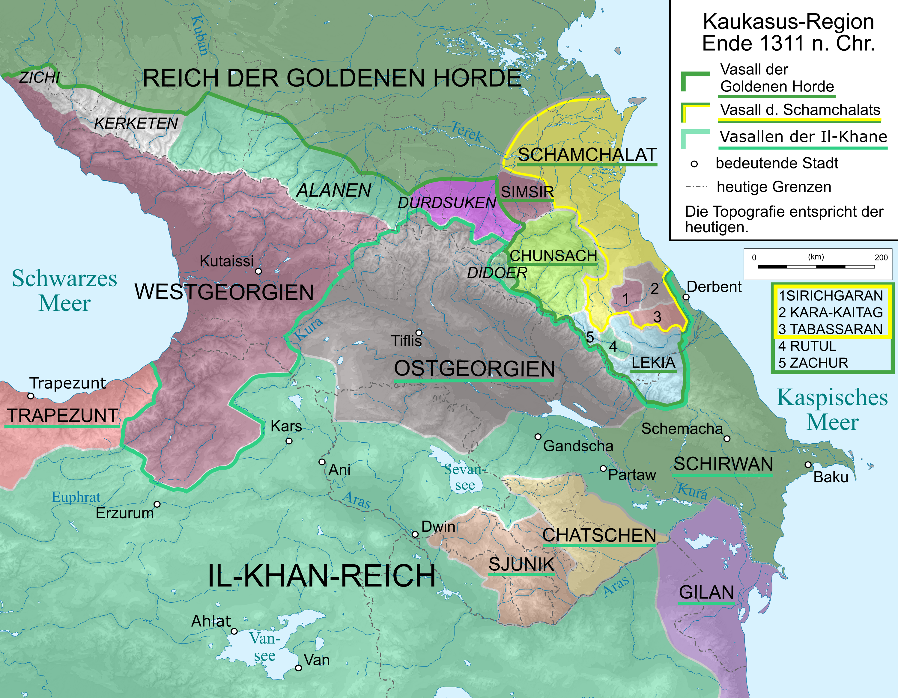 Map of Caucasus Region around 1380 in German.